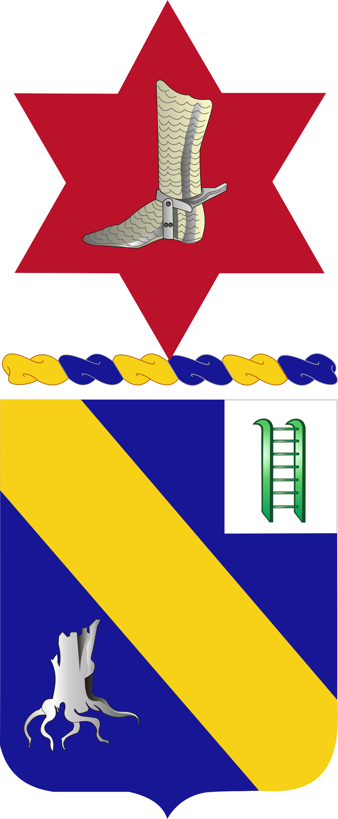 Description/Blazon Shield Azure a bend Or, in base a ragged tree trunk eradicated Argent; on a sinister canton of the last a scaling ladder Vert. Crest On a wreath of the colors Or and Azure a six-pointed star Gules charged with a mailed foot Argent. Motto "I will cast my shoe over it." Symbolism Shield This Regiment was organized in 1917 from the 6th Infantry, which is shown on the canton. The shield is blue for Infantry with a gold bend taken from the arms of Alsace where the Regiment saw its first and hardest service in World War I. The ragged tree trunk is for the Meuse-Argonne operation. Crest The crest is the insignia of the 6th Division, charged with a mailed foot to commemorate the march from the Vosges to the Argonne and back to southern France. Background The coat of arms was originally approved for the 54th Infantry Regiment on 28 March 1921. It was redesignated for the 54th Armored Infantry Regiment on 10 August 1942. The insignia was redesignated for the 54th Infantry Regiment on 29 December 1958.